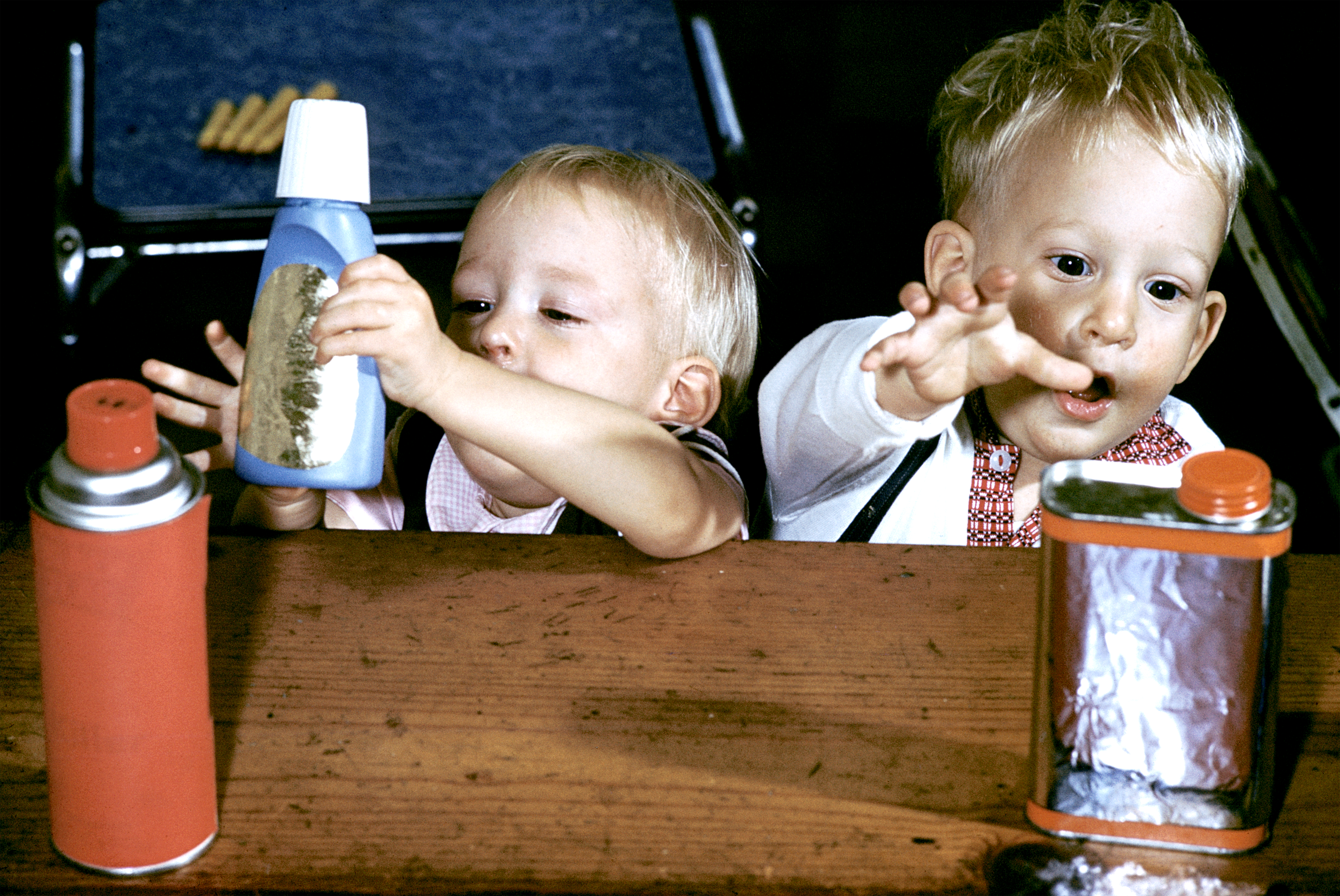 FDA’s oversight of cleaners and other dangerous chemicals, exemplified in this scene from a 1967 slide program, “Keep Out of Reach of Children,” began in 1927 and ended when the Consumer Product Safety Commission was assigned this duty in 1973. For more information about FDA history visit